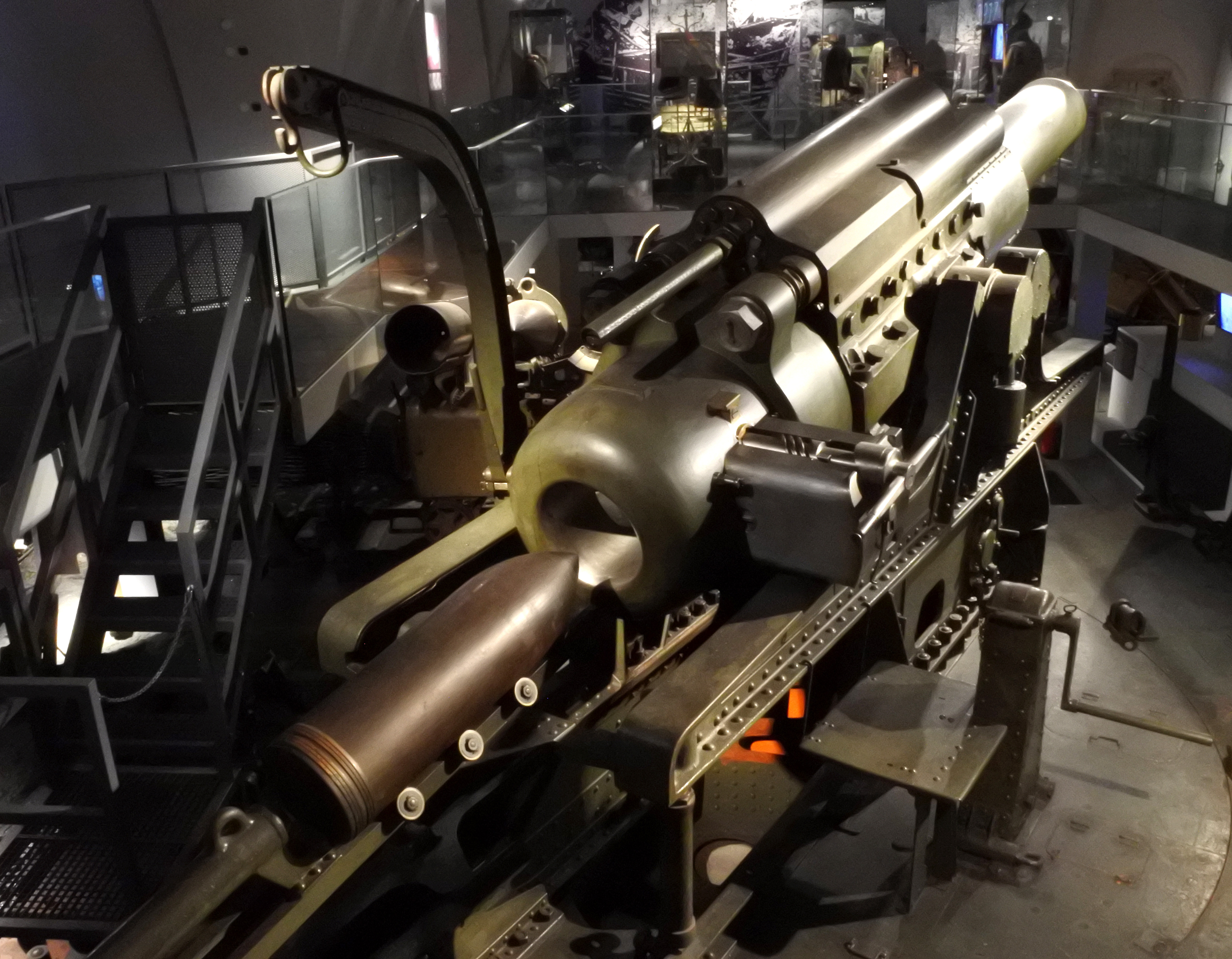 38 cm siege howitzer, Austria Hungary 1916, in the Heeresgeschichtliches Museum, Vienna.